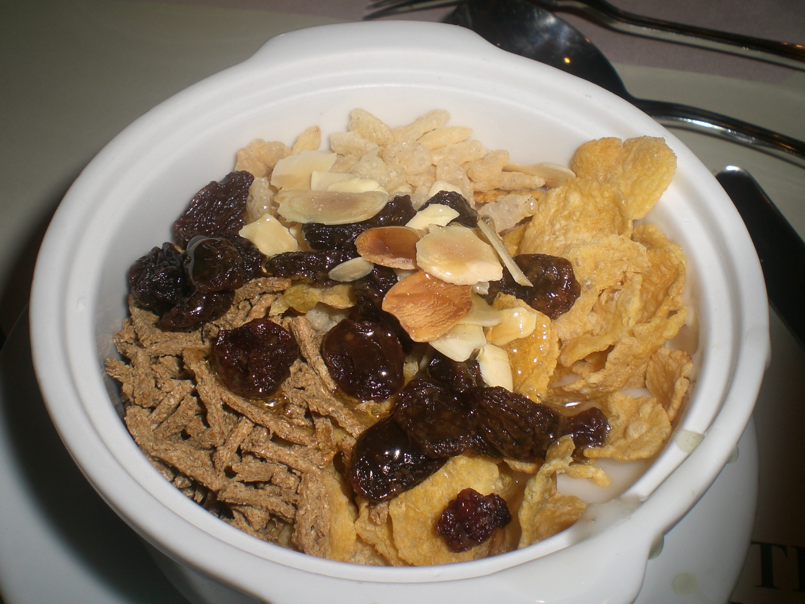 君怡酒店 (澳門), Grandview Hotel, Macau Hotel breakfast buffet: 葡萄乾, 燕麥片, Raisins, Oatmeal Photo author= Mo707